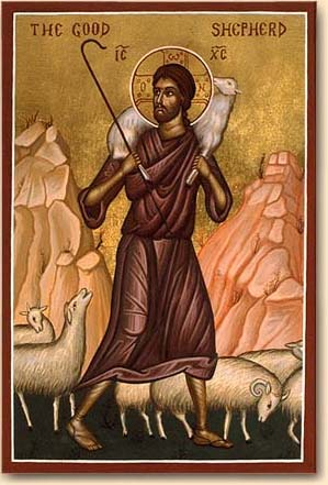 Icon of Good Shepherd